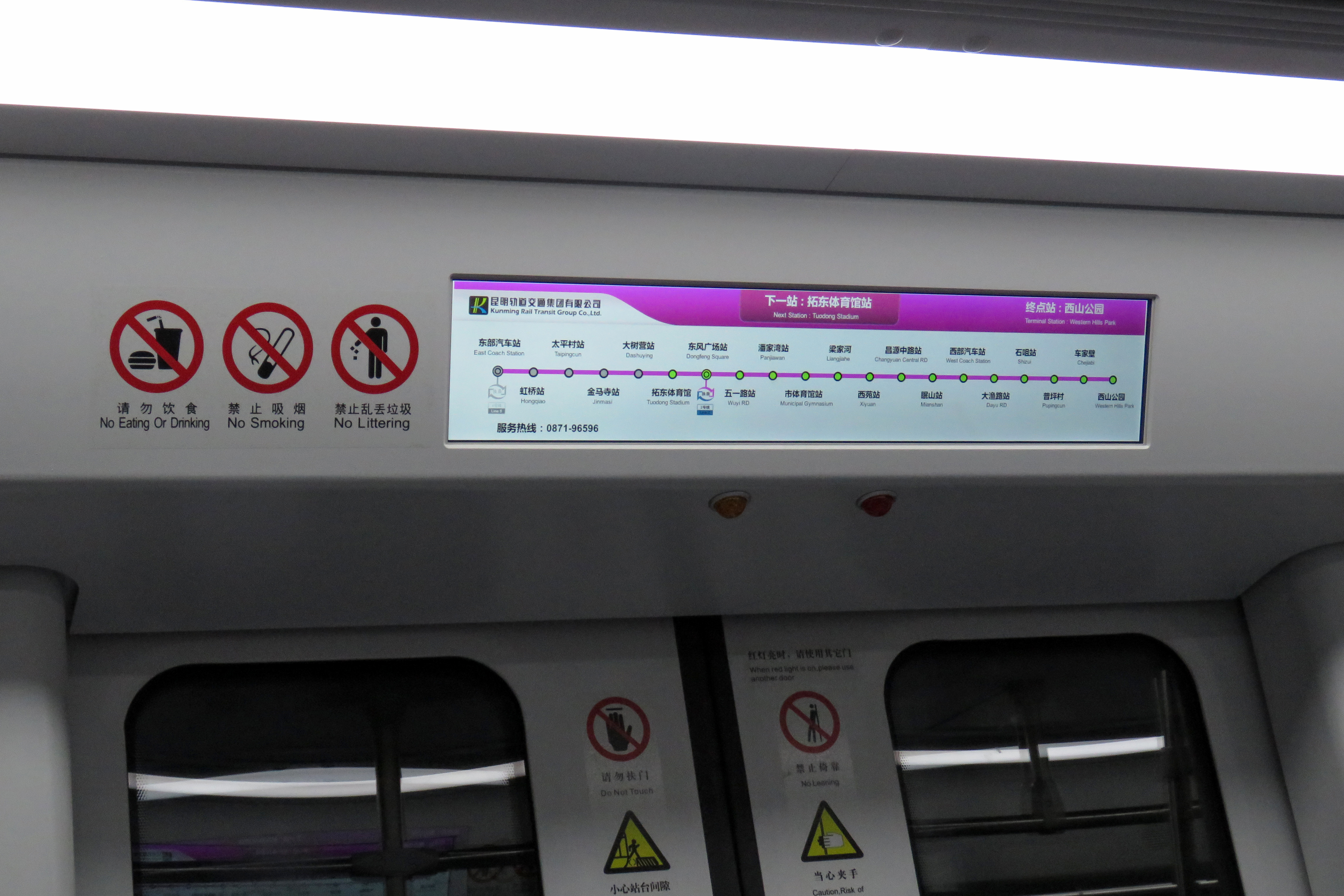 Yeah, LCD for a new line!